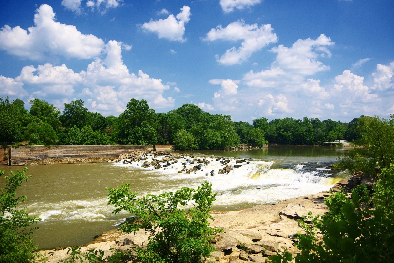 Rochester Dam, located along the Green River near Rochester, Kentucky, United States.